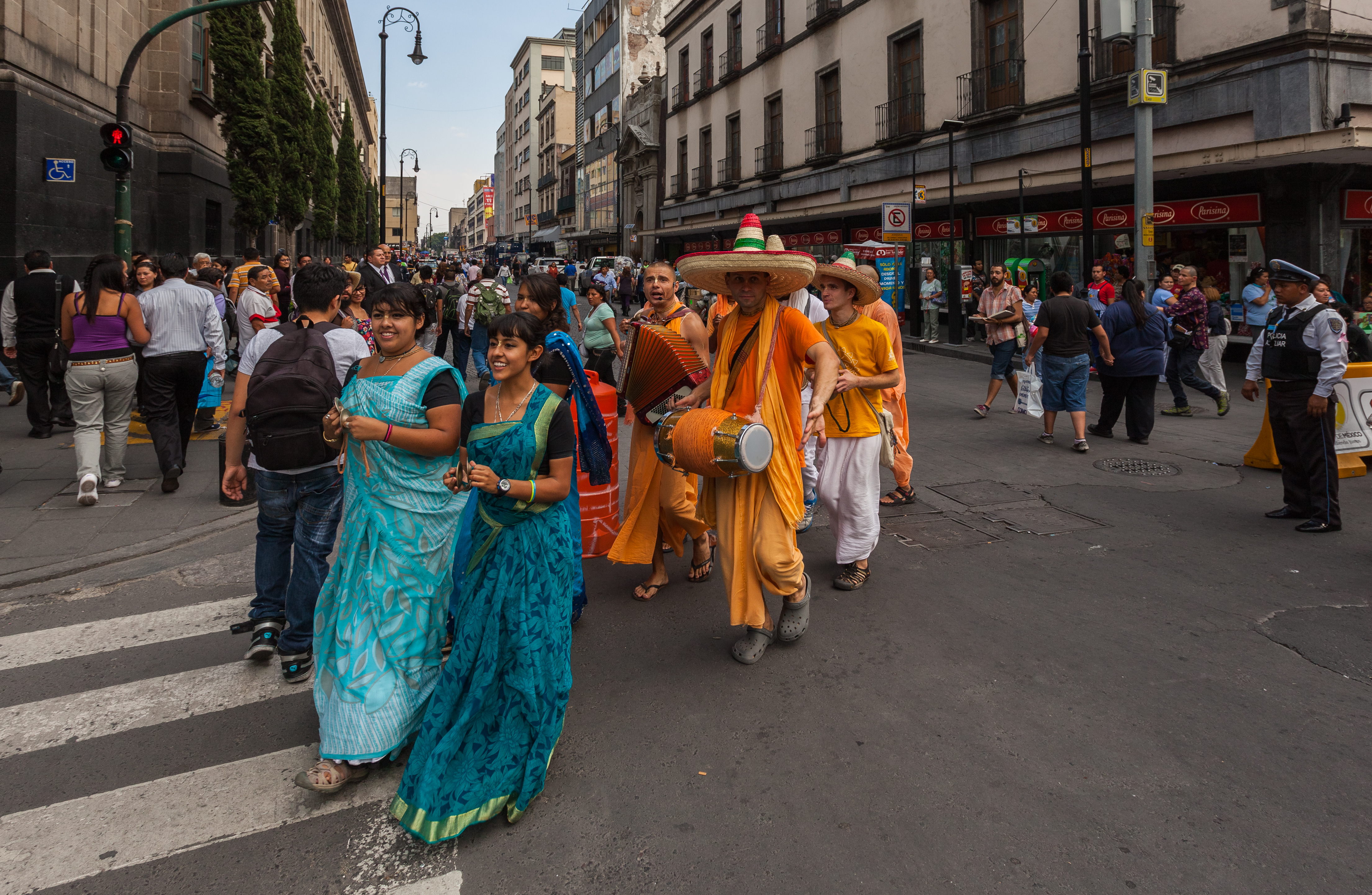 Buddhists in Mexico City, Mexico